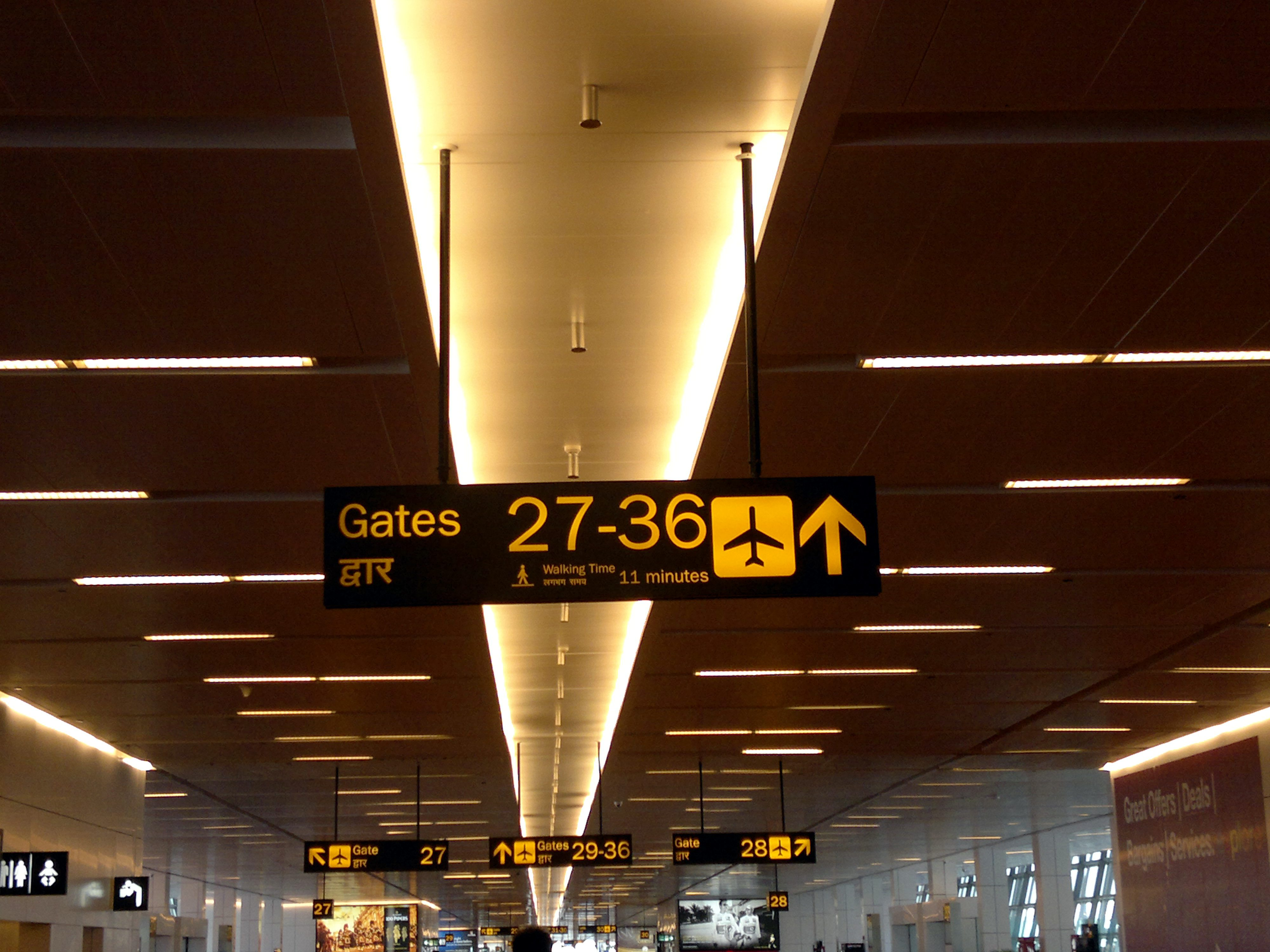 Indira Gandhi International Airport (Hindi: इन्दिरा गाँधी अंतर्राष्ट्रीय हवाई अड्डा) Named after Indira Gandhi, the former Prime Minister of India, it is the busiest airport in India in terms of daily flight traffic and second busiest in term of passenger traffic in India after Mumbai's Chhatrapati Shivaji International Airport. Terminal 3, a state-of-the-art and integrated terminal, is the world’s eighth largest passenger terminal. It occupies 502,000 m² (5.4 million sq ft), with a capacity to handle 34 million passengers annually.